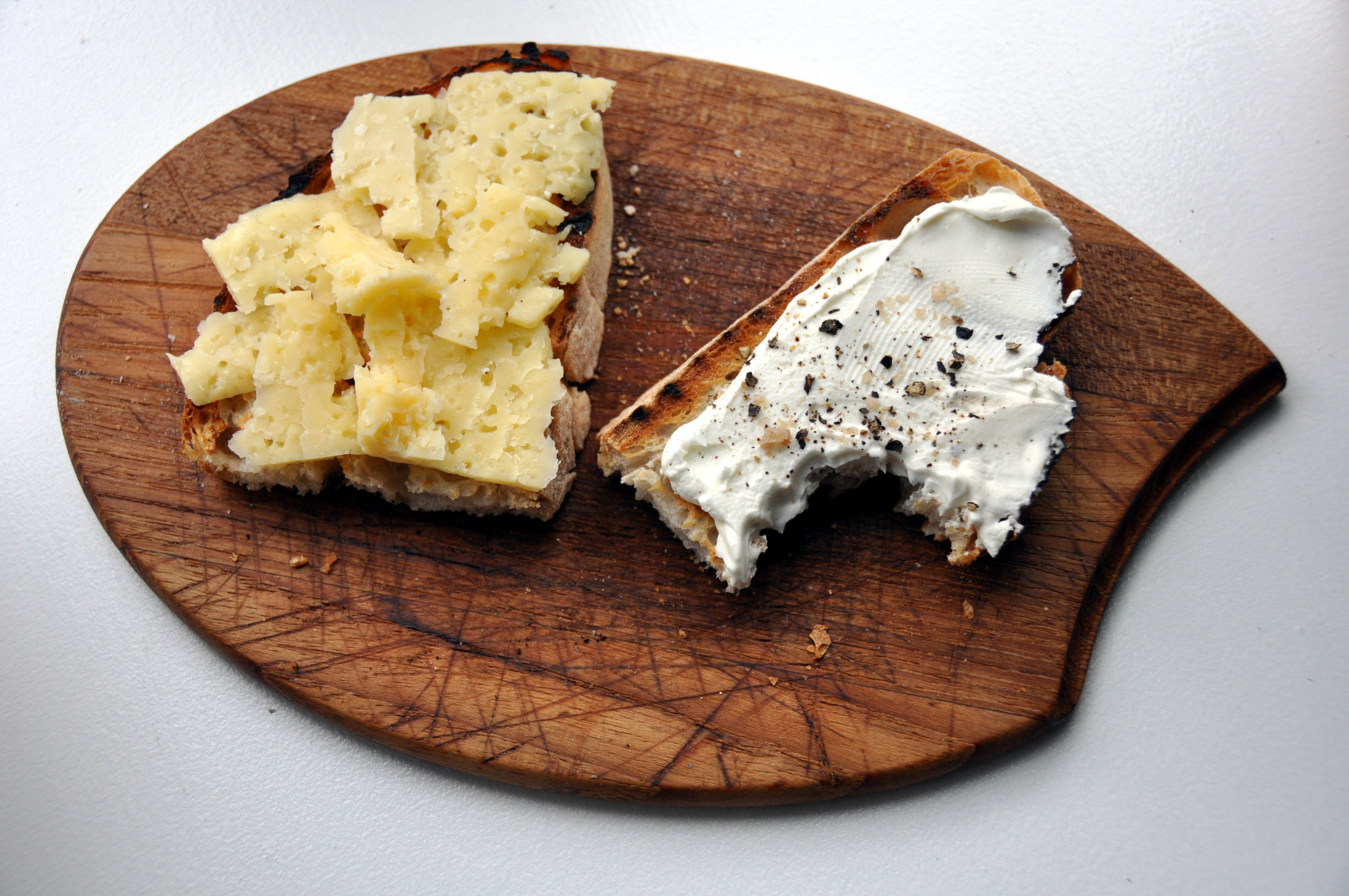 Bread with Västerbotten cheese and smoked goat cheese